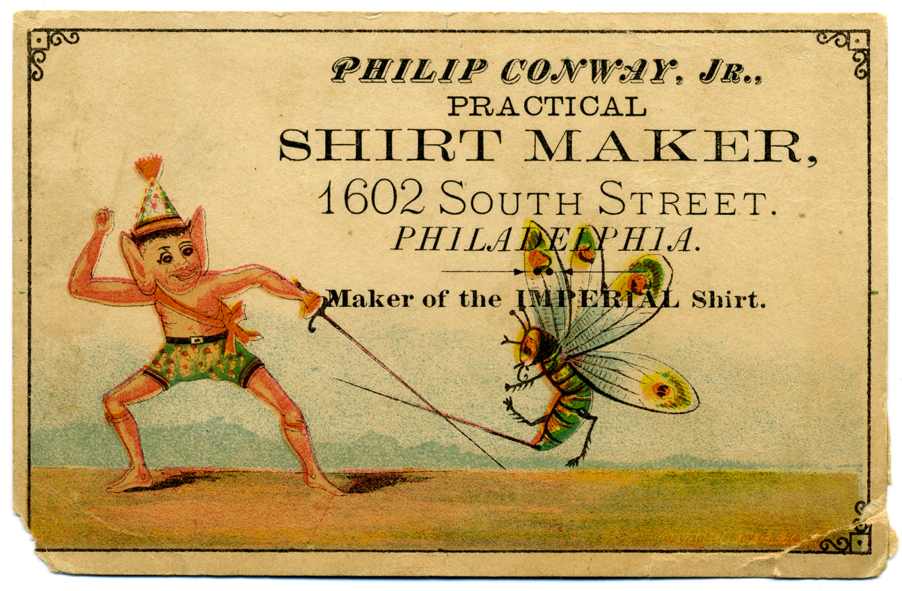 Advertisement card for Philip Conway, Jr., Practical Shirt Maker, 1602 South Street, Philadelphia, Maker of the Imperial Shirt. 10.5 x 7 cm.